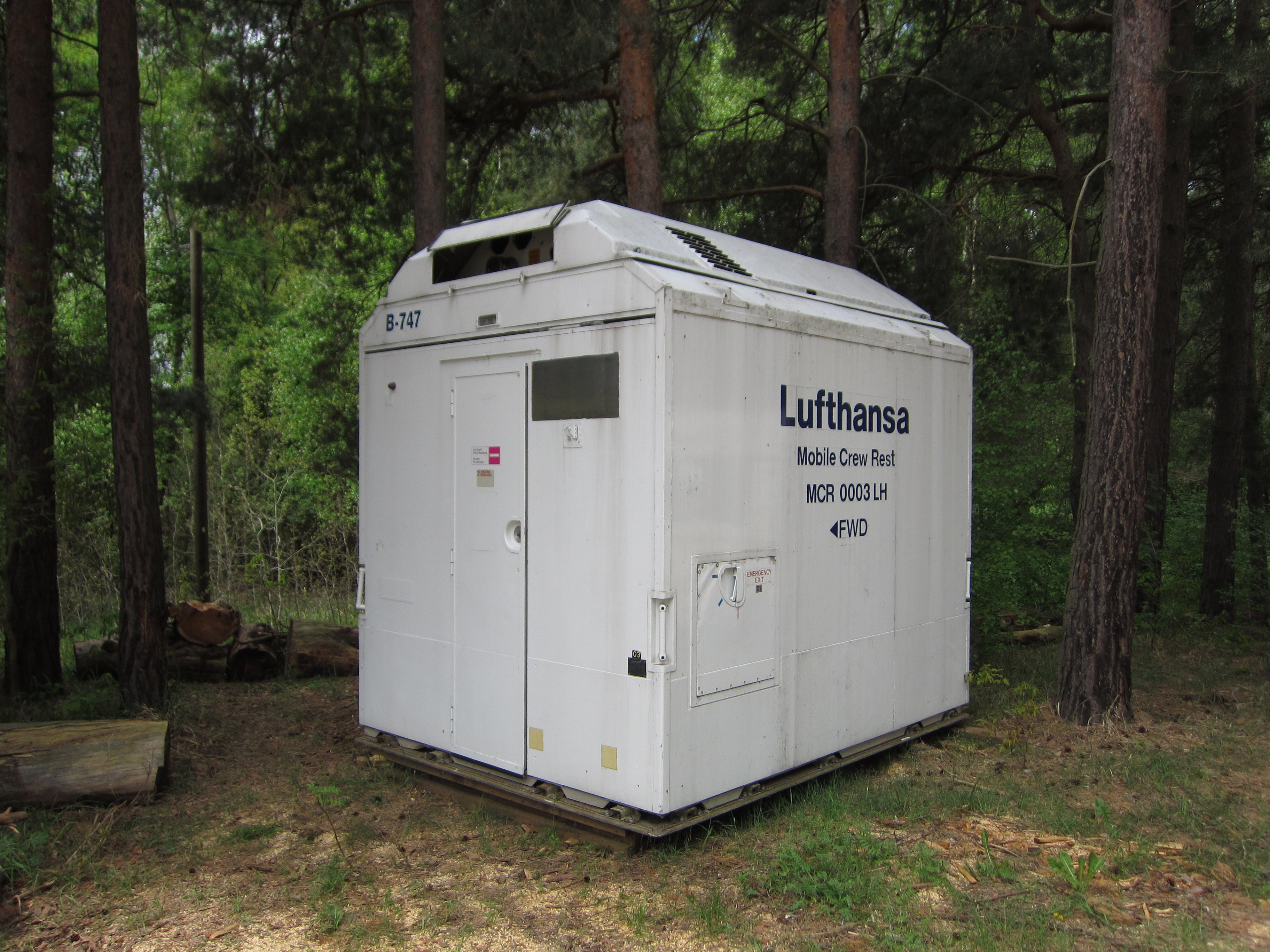 Former Mobile Crew Rest container MCR 0003 LH of Lufthansa. It is now part of exhibition in Finow.